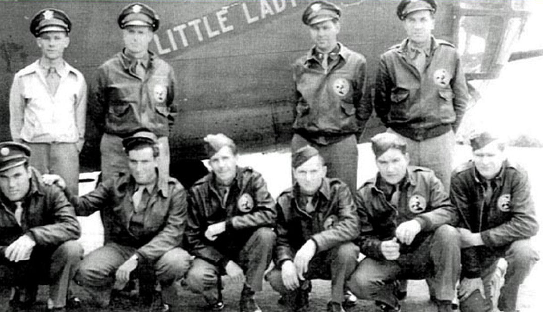 B-24 Liberator 41-23754 'Little Lady' lost on Ploesti raid 1st Aug 1943. Crew interned in Turkey where it crash landed. Back row standing left to right was pilot Ed Baker who was then 409 sq operations officer, flew as Dick Wilkinson's co-pilot- Richard (Dick) Wilkinson pilot- Joe Silverman bombardier -Kenneth Hebert navigator front row left to right Lalous Fultz gunner - Milton Rolley flight engineer(I believe)- Dan Butler gunner- Granville Meske gunner - Jim Altimier gunner- Charles Kimtantas radio operator.